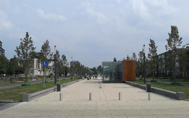 Van Schaeck Mathonsingel, Nijmegen